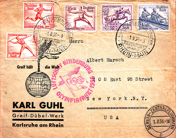 Flown cover carried on the D-LZ129 "Hindenburg" to Berlin on the "Olympiafahrt" for the opening ceremonies of the 1936 Summer Olympic Games, August 1, 1936. Source: The Cooper Collection of Zeppelin Postal History